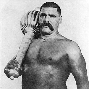 Ghulam Muhammad, known most famously as "The Great Gama" and also as "Rustam-e-zaman Gama Pahelvan"."Gama Pelwan" as he was known was a Jatt by caste and also known as Sher-e-punjab (the lion of Punjab)